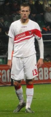 Photo - Slovak footballer Milan Bortel